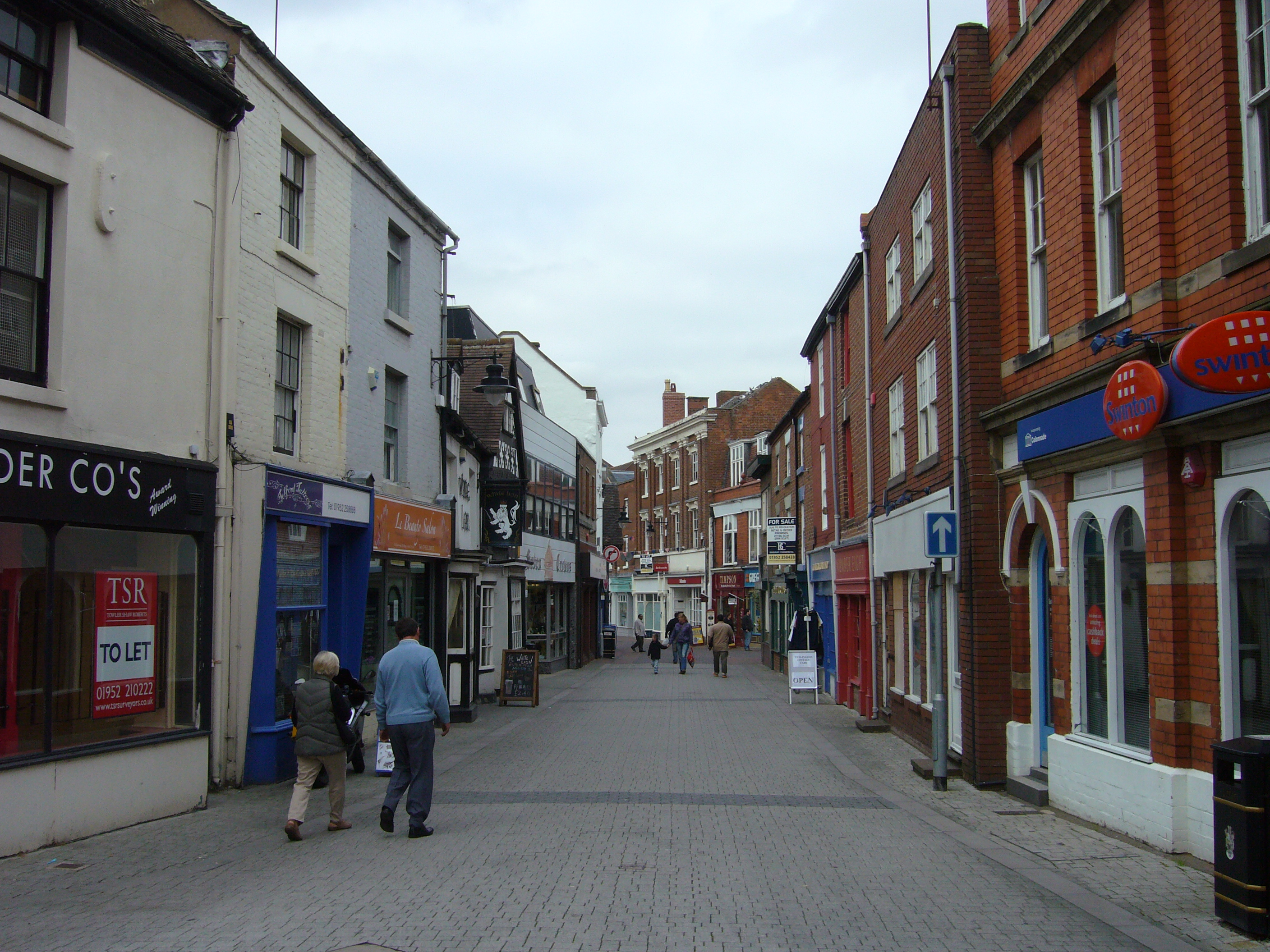 Street scene in Wellington, Shropshire. Pedestrianised town centre.